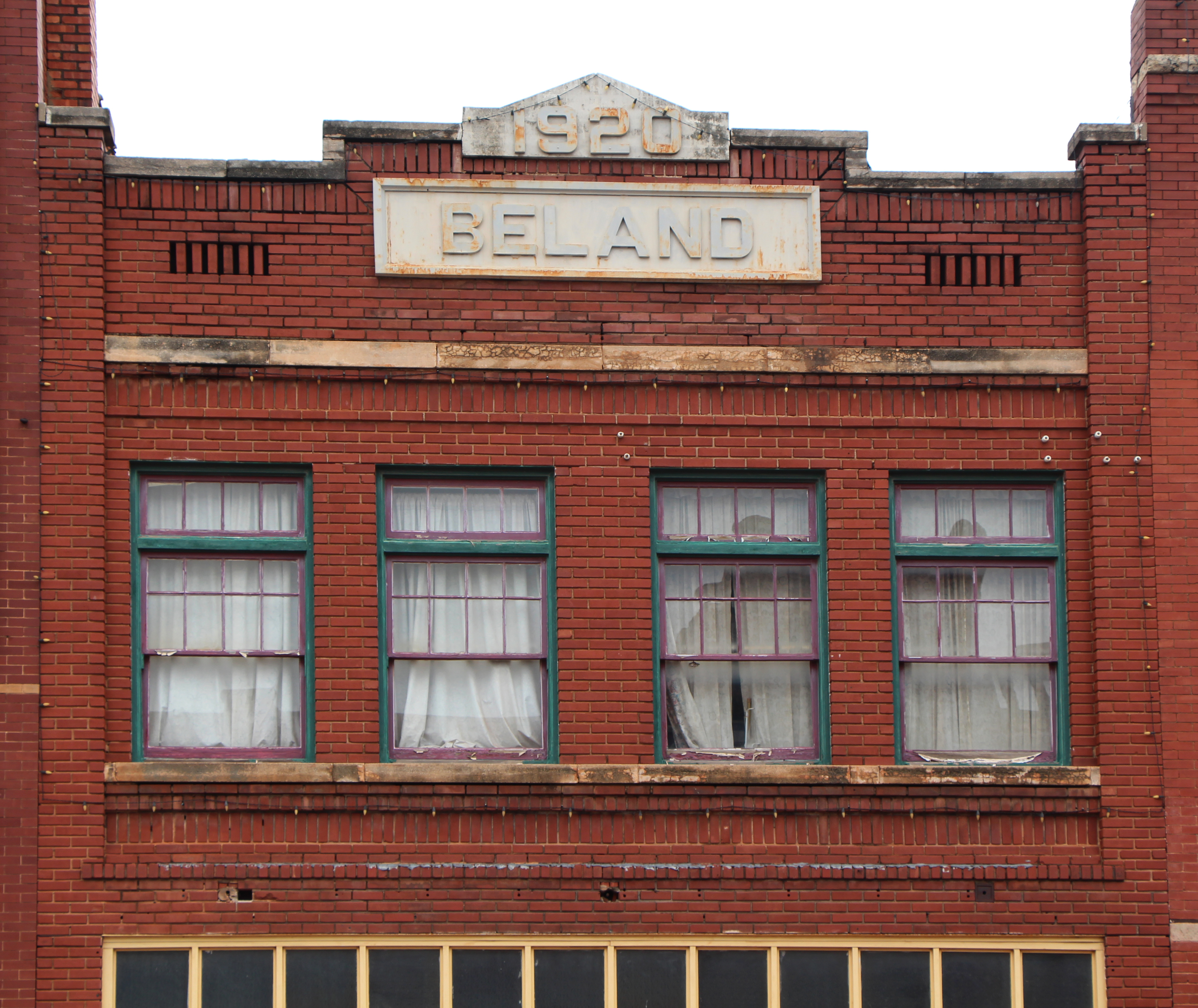 Beland Building, Guthrie, Oklahoma